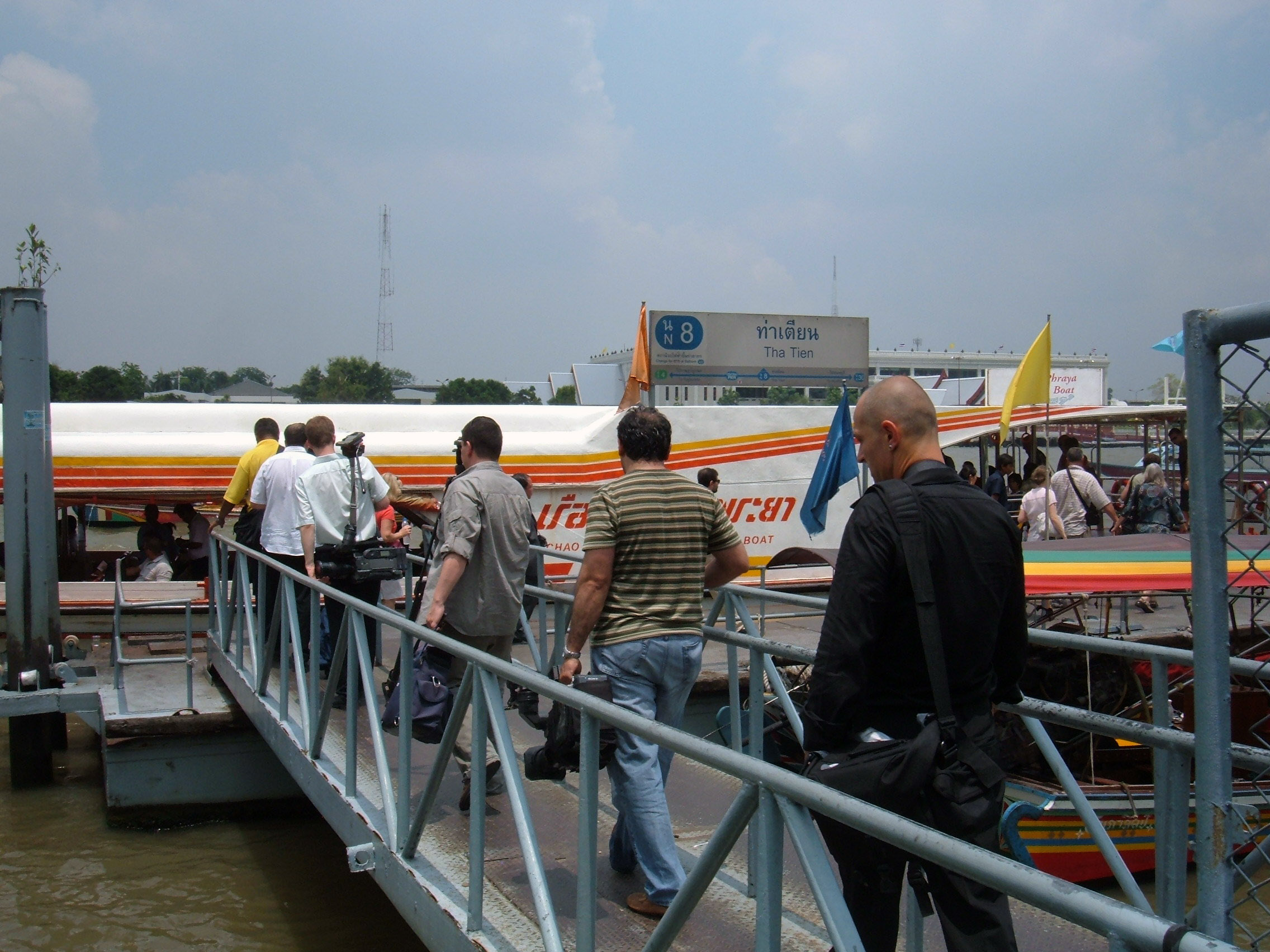 Passengers boarding a Chao Praya ferry at the Tha Tien stop in Bangkok, Thailand